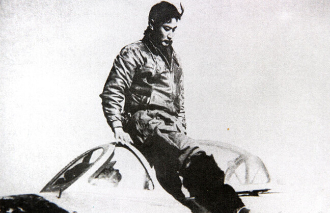 In 1951, Liu Yudi took part in the Korean War. He was sitting on the bomber.